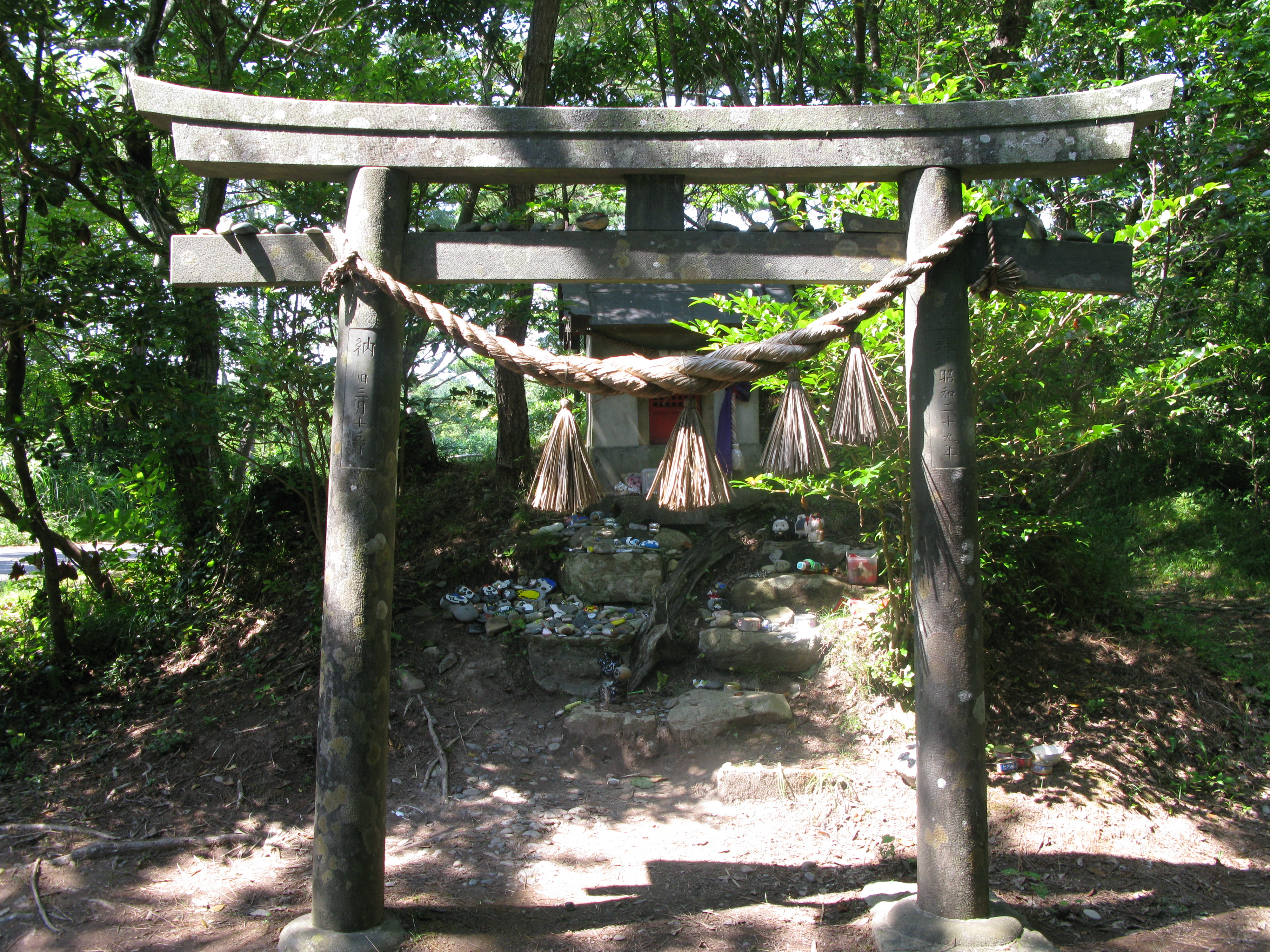 Neko JINJA shrine